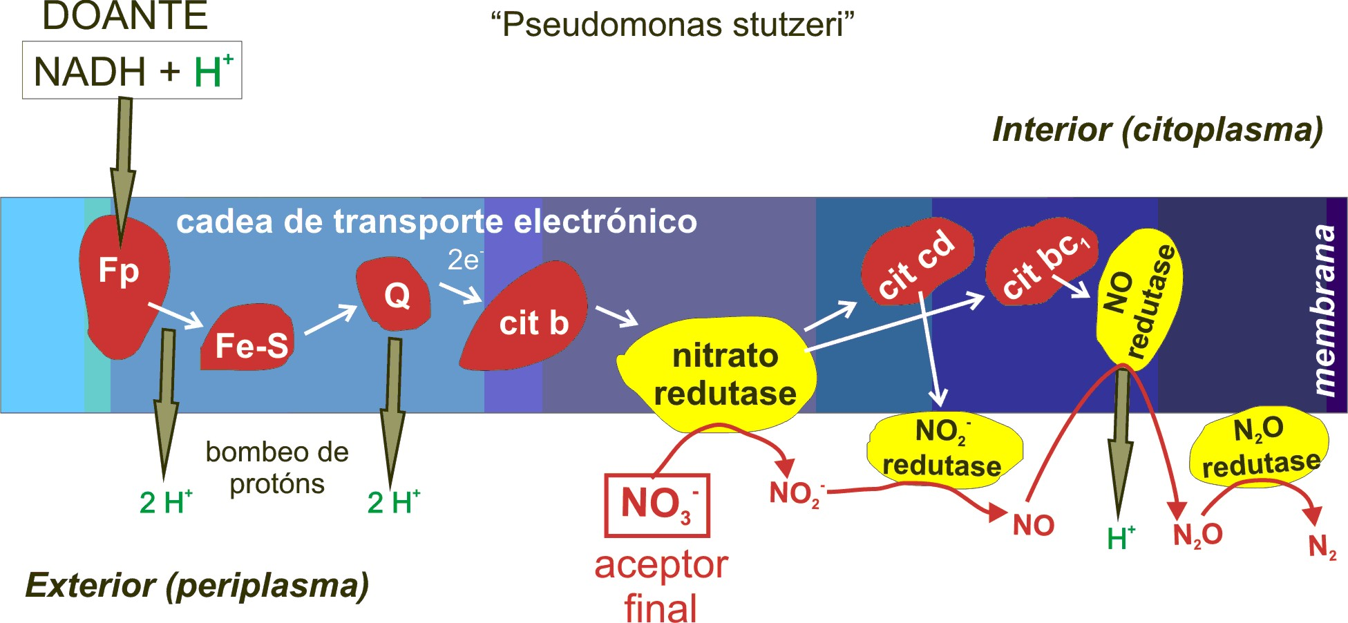 anaerobic respiration in Pseudomonas stutzeri diagram jpg